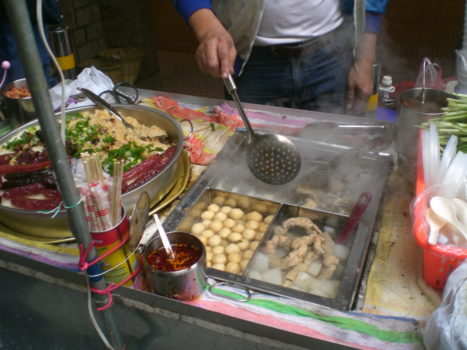 香港zh:黃大仙 黃大仙下邨 小販 東頭村道與 正德街之交界 街頭小食 小食 臘味飯